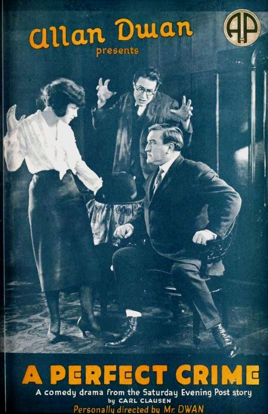 Advertisement for the American comedy drama film A Perfect Crime (1921) with Jacqueline Logan, Monte Blue, and Stanton Heck, from the insert after page 2 of the March 12, 1921 Exhibitors Herald.